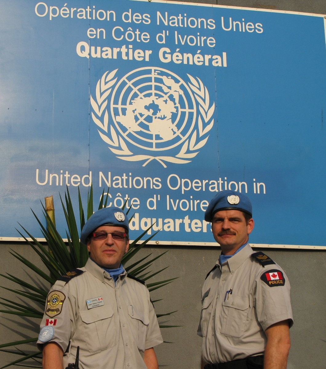 SQ police officers on UNPOL mission ONUCI